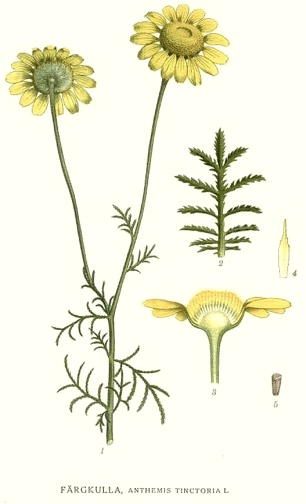 Original Description Färgkulla, Anthemis tinctoria L.